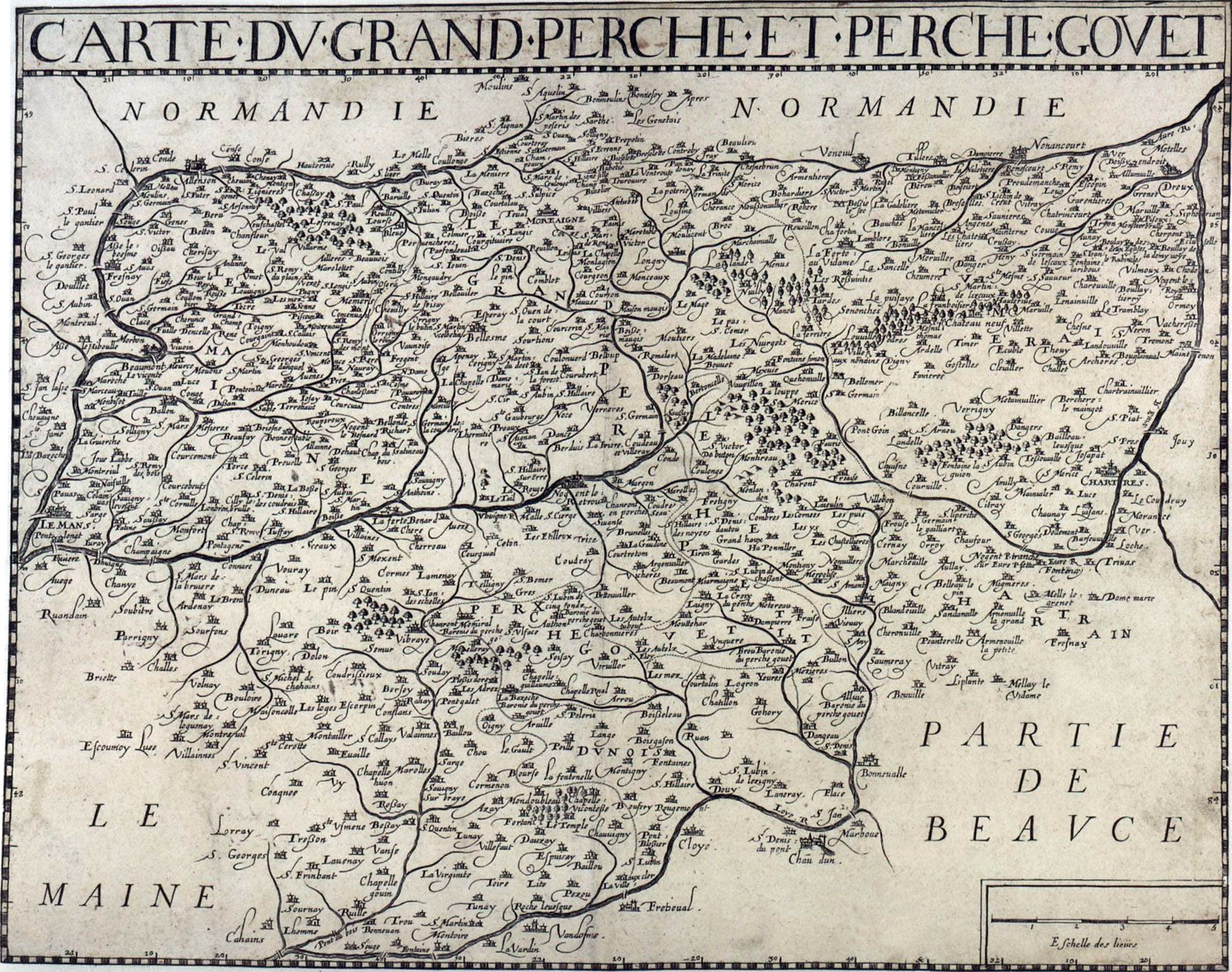 Map of the Grand Perche and Perche Gouet area